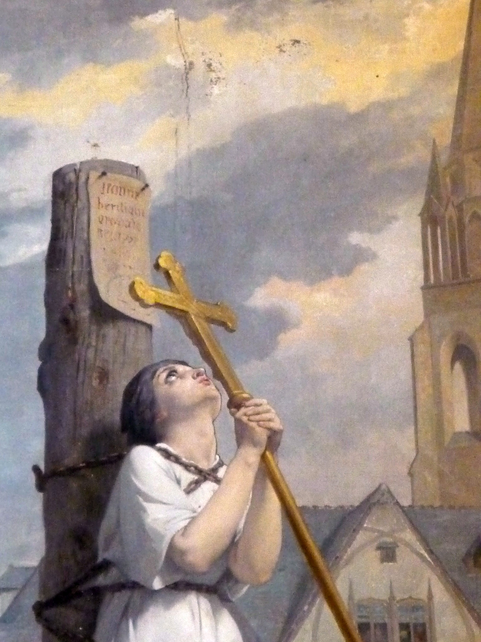 Detail of a painting about Jeanne d'Arc, Panthéon, paris, france